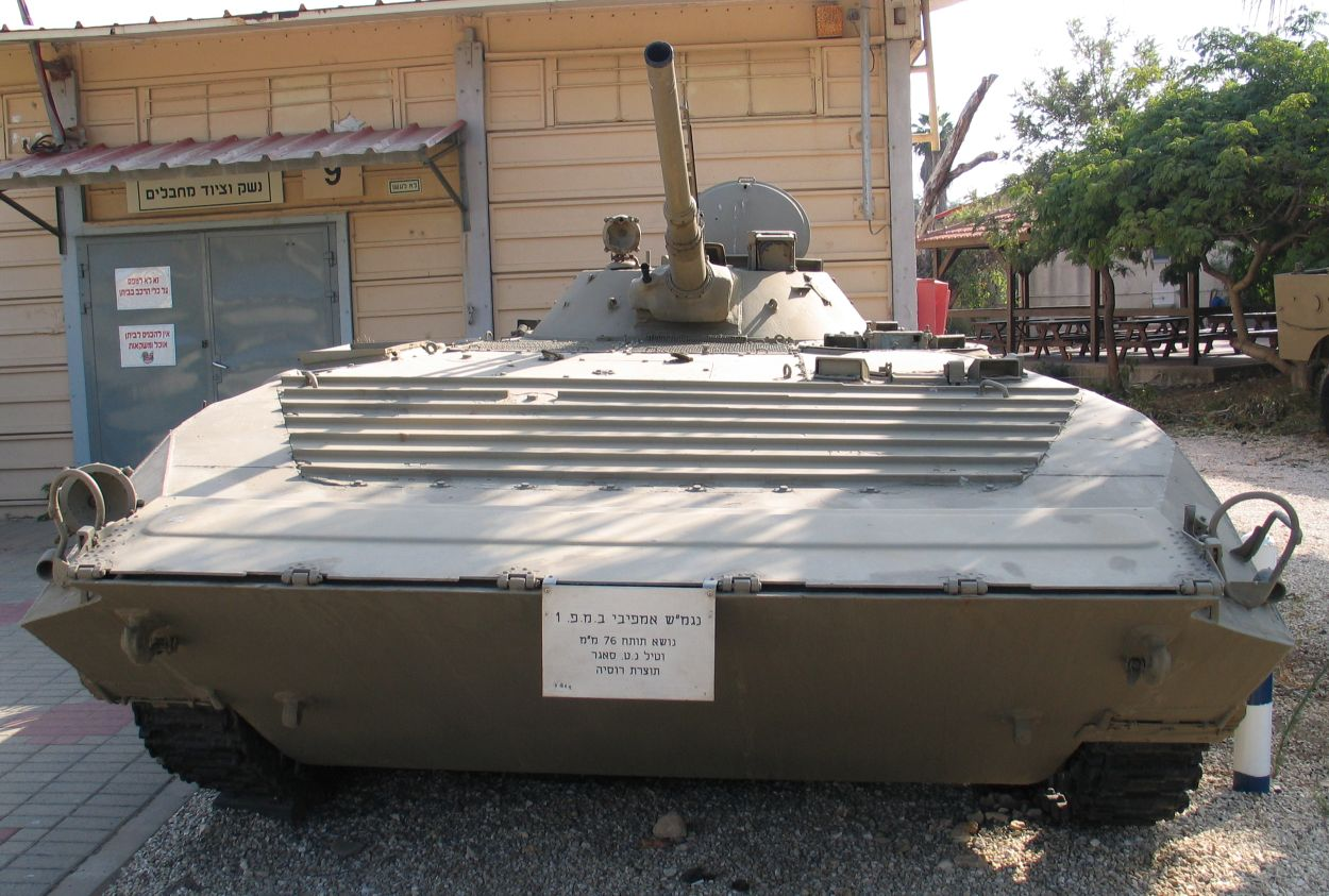 Description: BMP-1 in Batey ha-Osef museum, Tel Aviv, Israel. 2005. Source: Photo by me, User:Bukvoed.